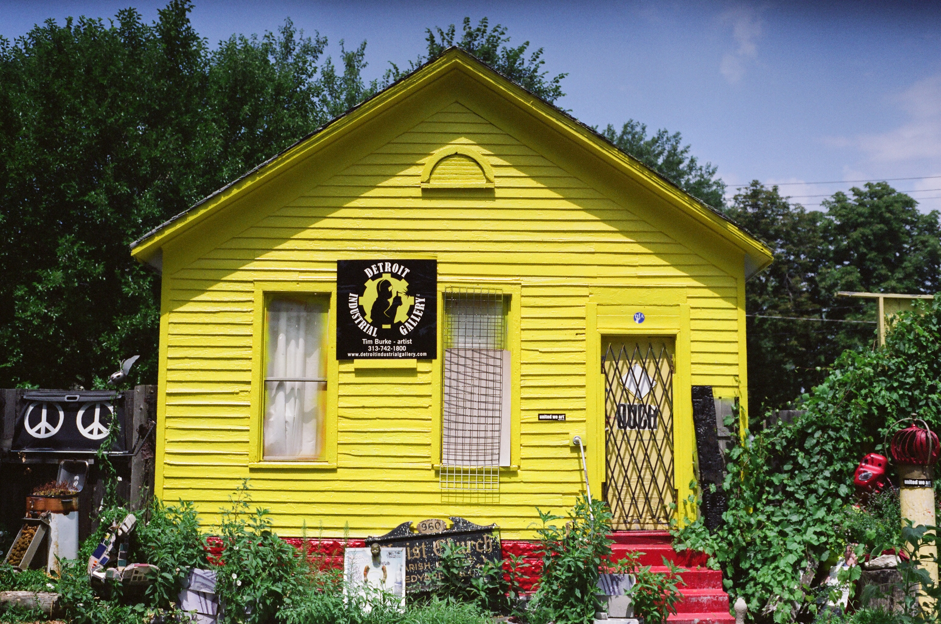 Detroit Industrial Gallery, Studio Gallery of Artist Tim Burke.